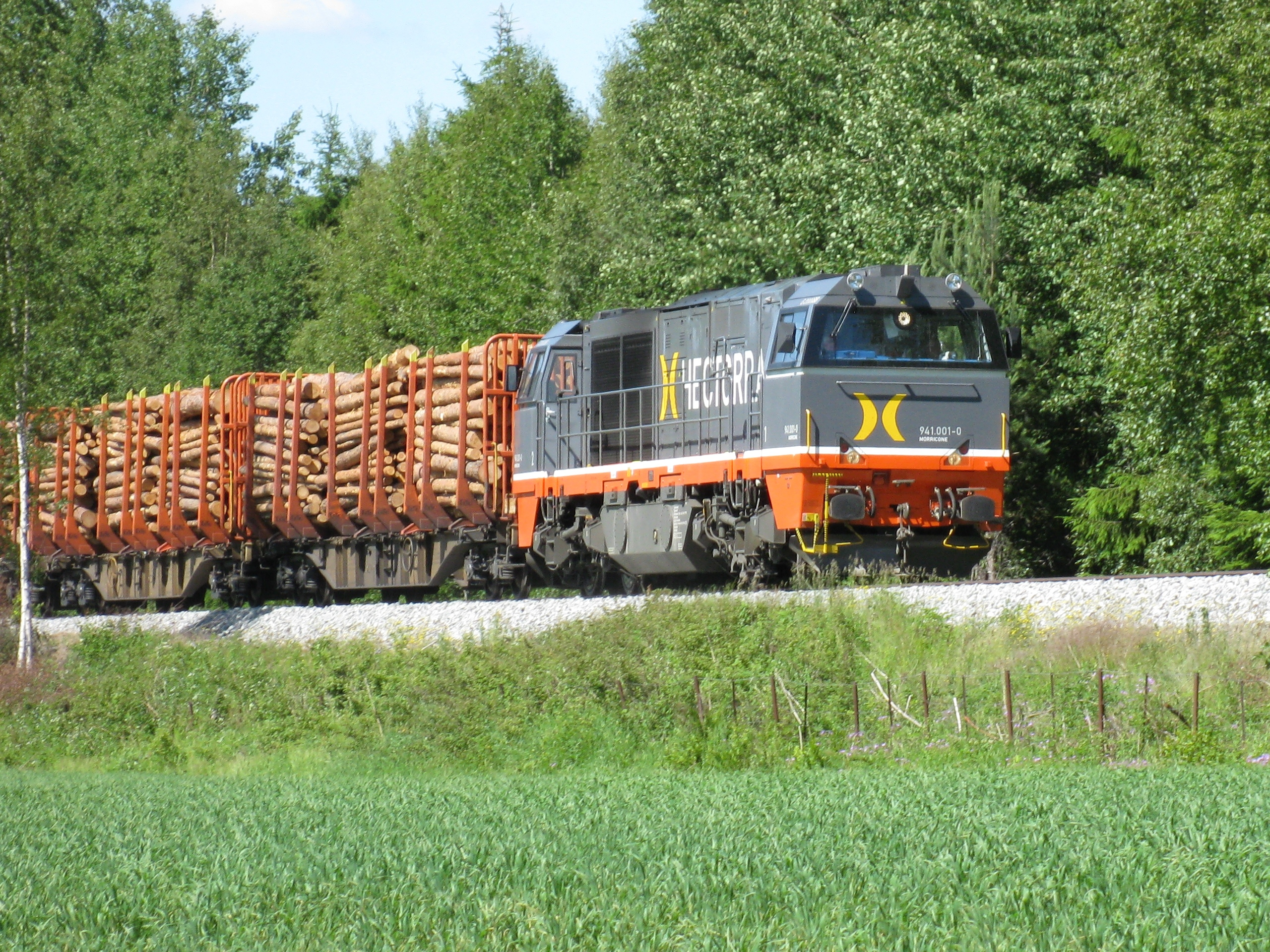 Hector Rail 941.001 "Morricone" heading south on Solørbanen.